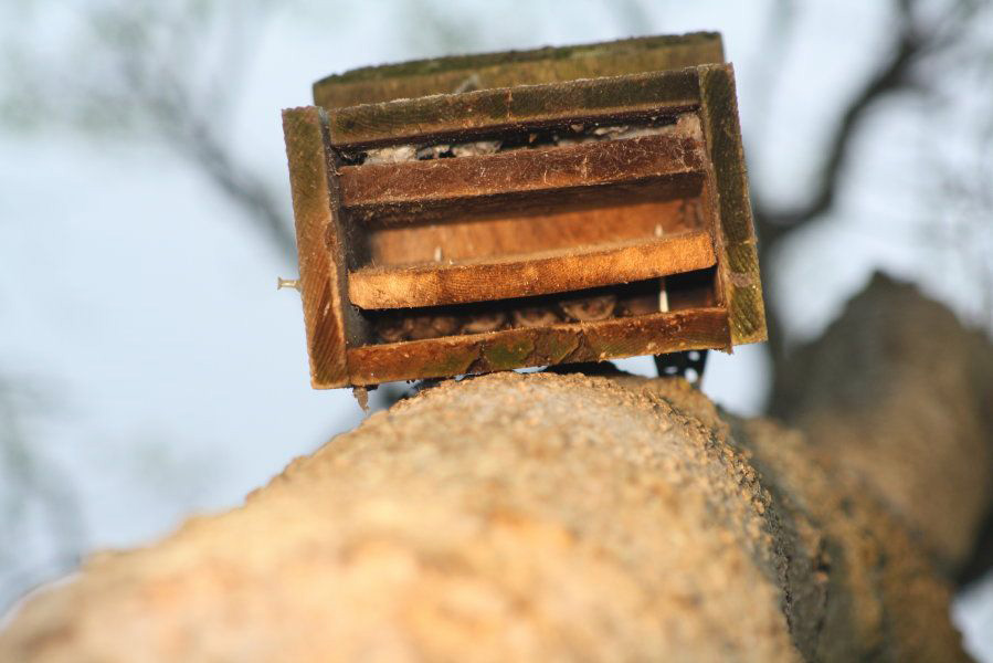 This is a picture taken from beneath a "bat box" -- an artificial roosting structure for bats. Look closely and you can see the Indiana bats roosting in this box. Photo by Indiana State University; Joey Weber